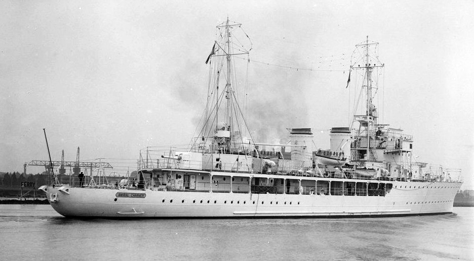 French Bougainville class aviso Amiral Charner